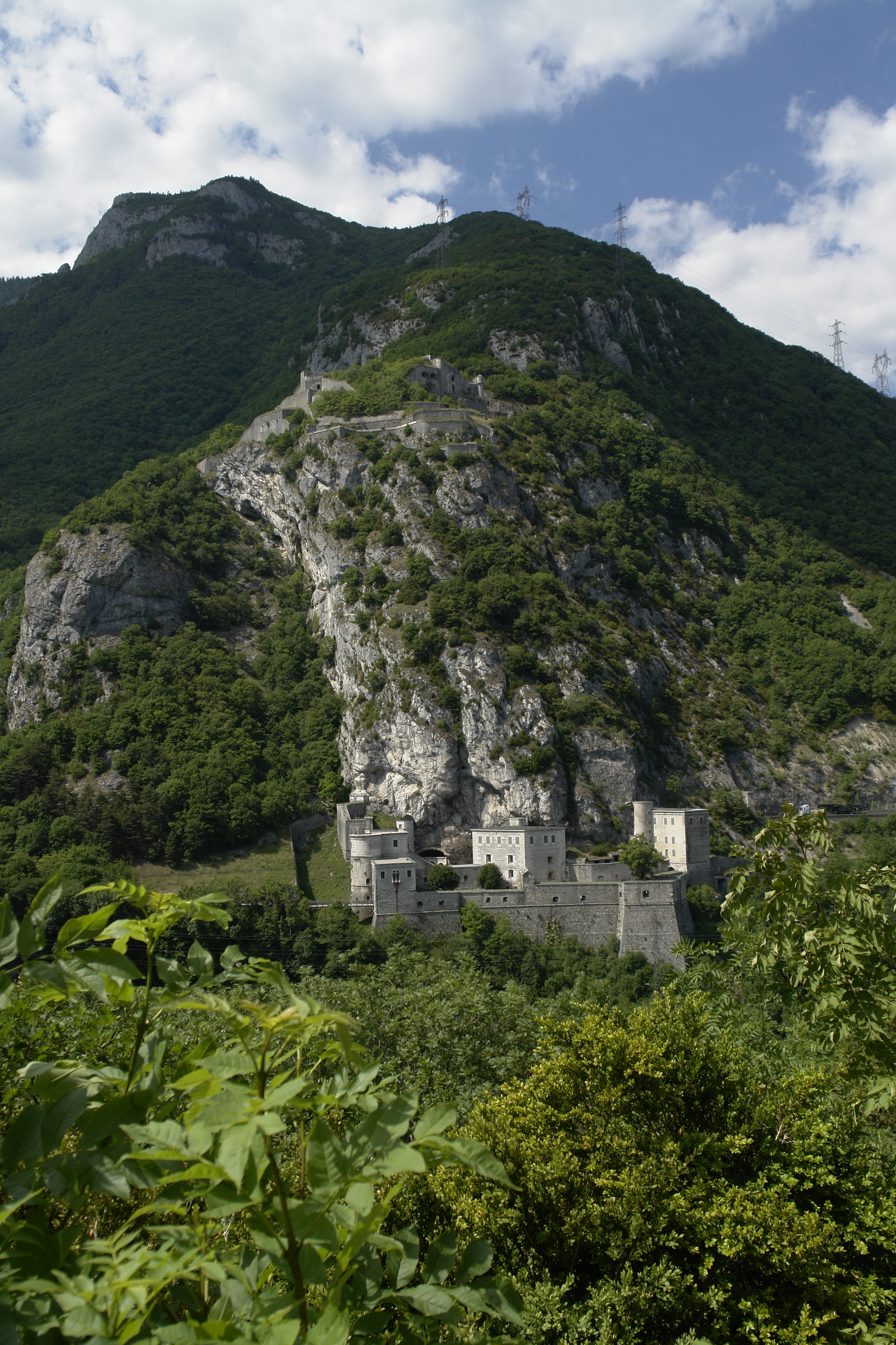 Fort l'Écluse, Léaz, Ain, from the D908 road.